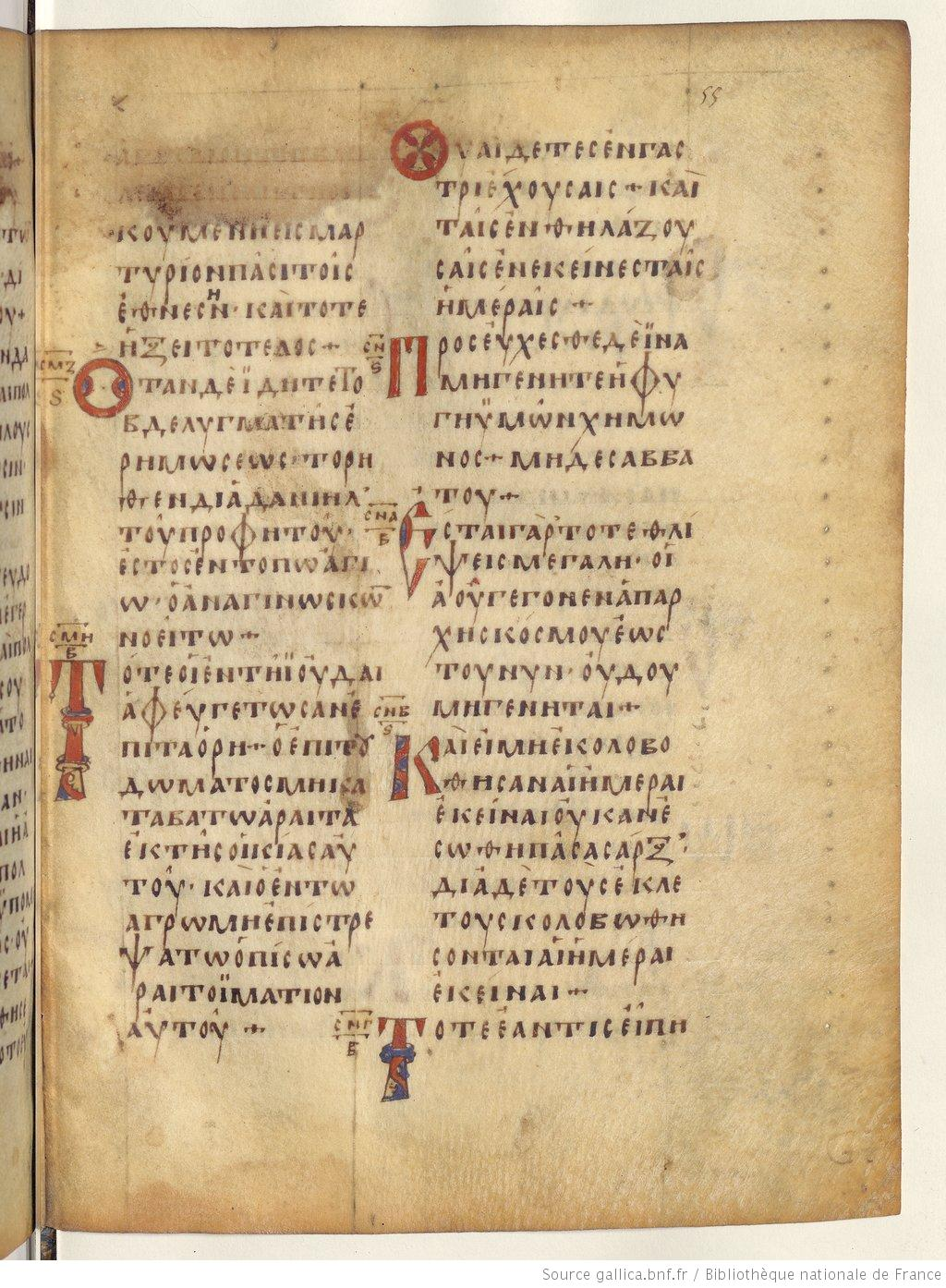 Codex Regius Grec 62, manuscript of the New Testament L/019 (Gregory-Aland)